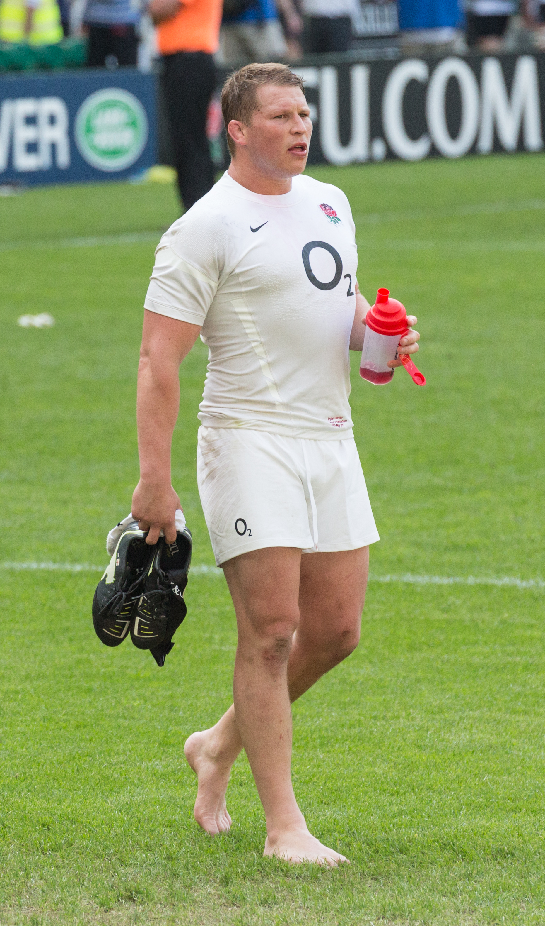 Dylan Hartley after the match against the Barbarians F.C. at Twickenham Stadium, England.